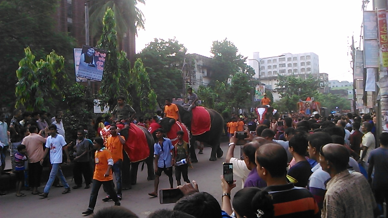 rally of Janmashtami in Dhaka, Bangladesh